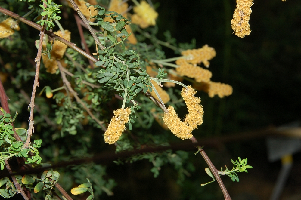 Acacia drummondii known from West-Australia, Botanical Garden, Berlin, Germany